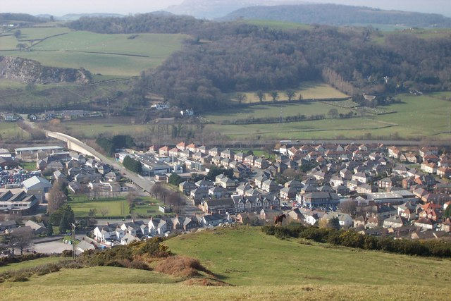 Mochdre Hilltop View. This is a part view of Mochdre taken from the 153 metre hill to the Southeast at grid reference SH 83076 78292.